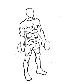 an exercise of biceps